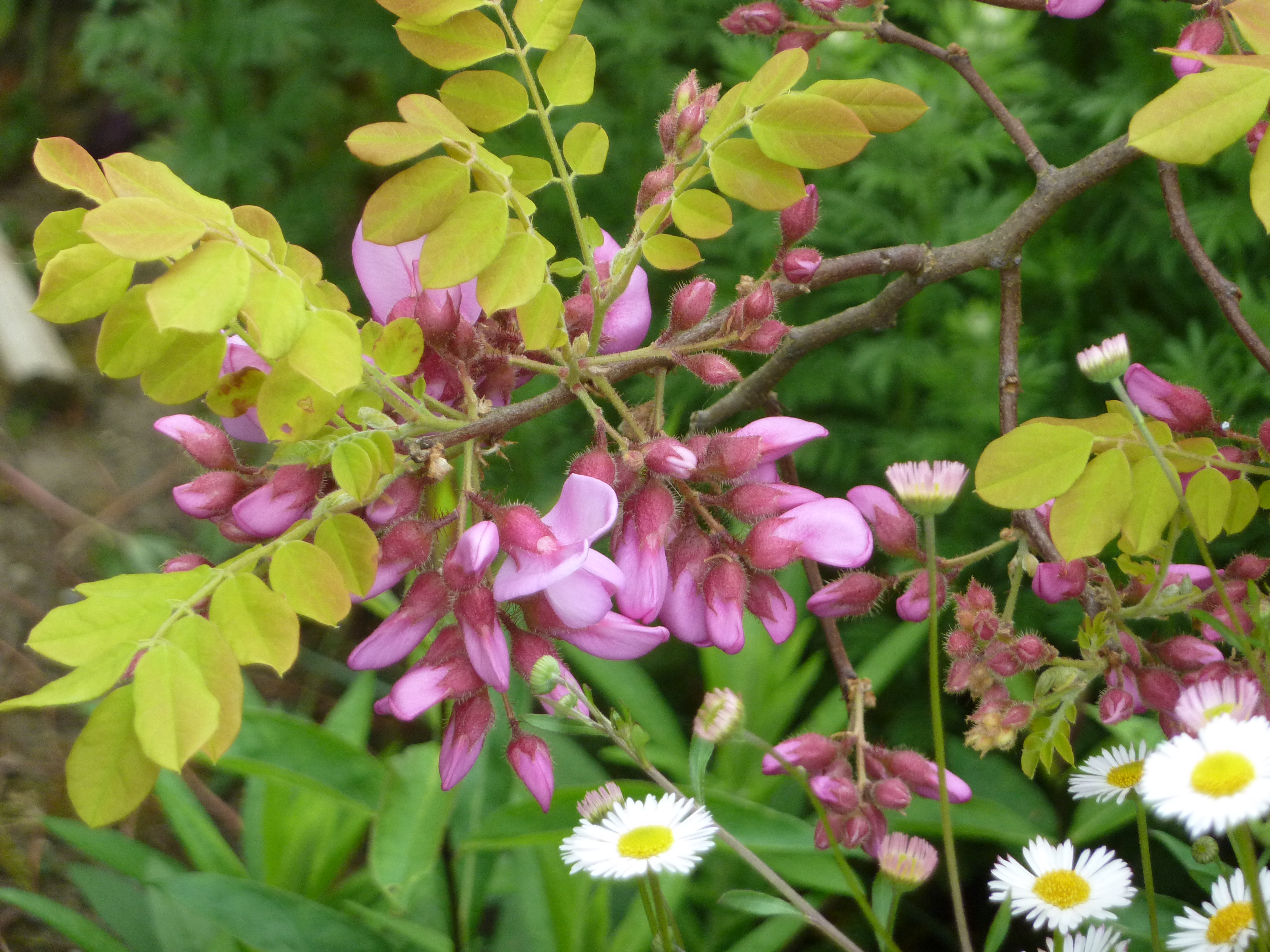 Branch, Leaves and Flowers Robinia hispida